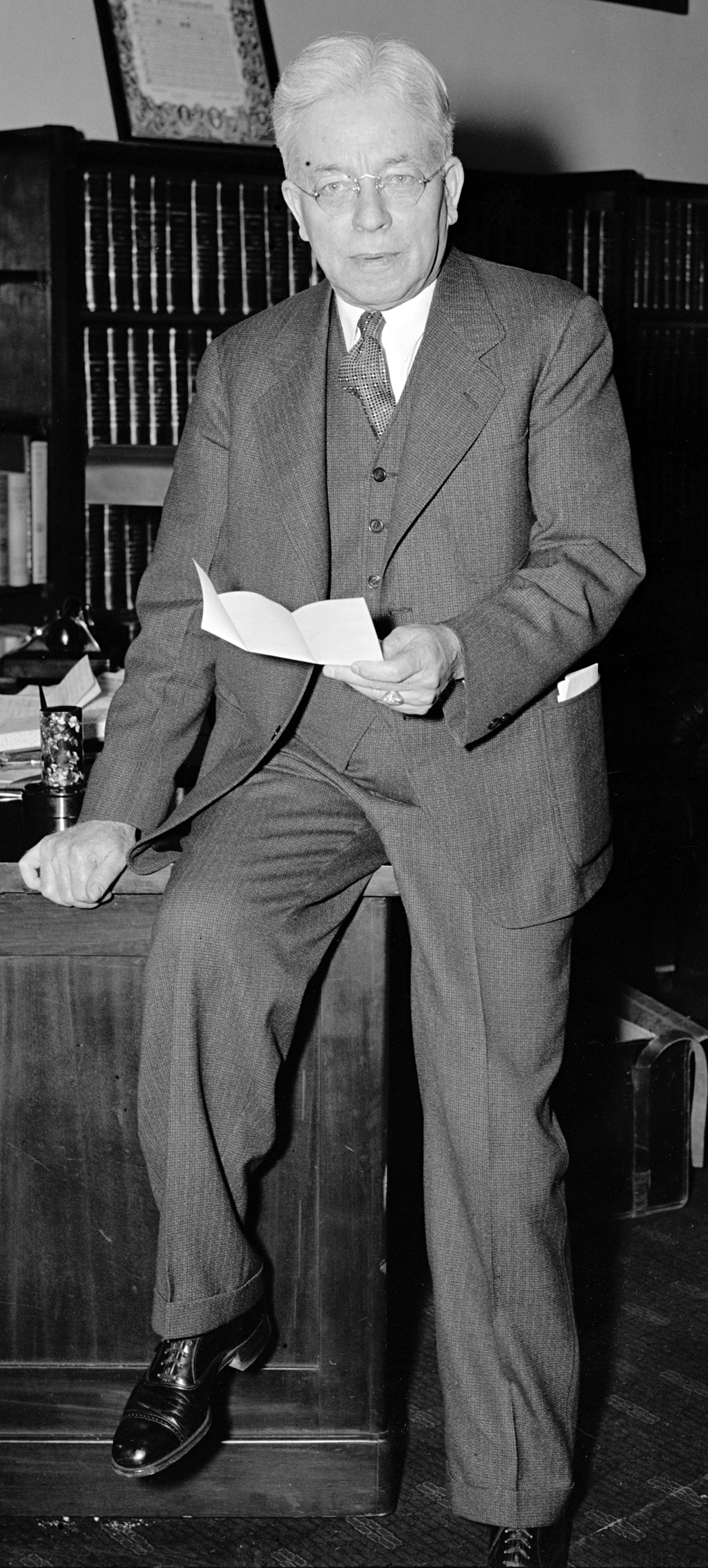 Clyde Smith, US Representative from Maine